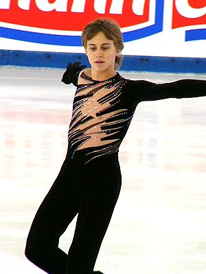 Alexander Uspenski during his free skate at the 2004 Junior Grand Prix event in Germany